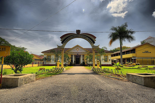 STUART LIBRARY at Kolej Sultan Abdul Hamid